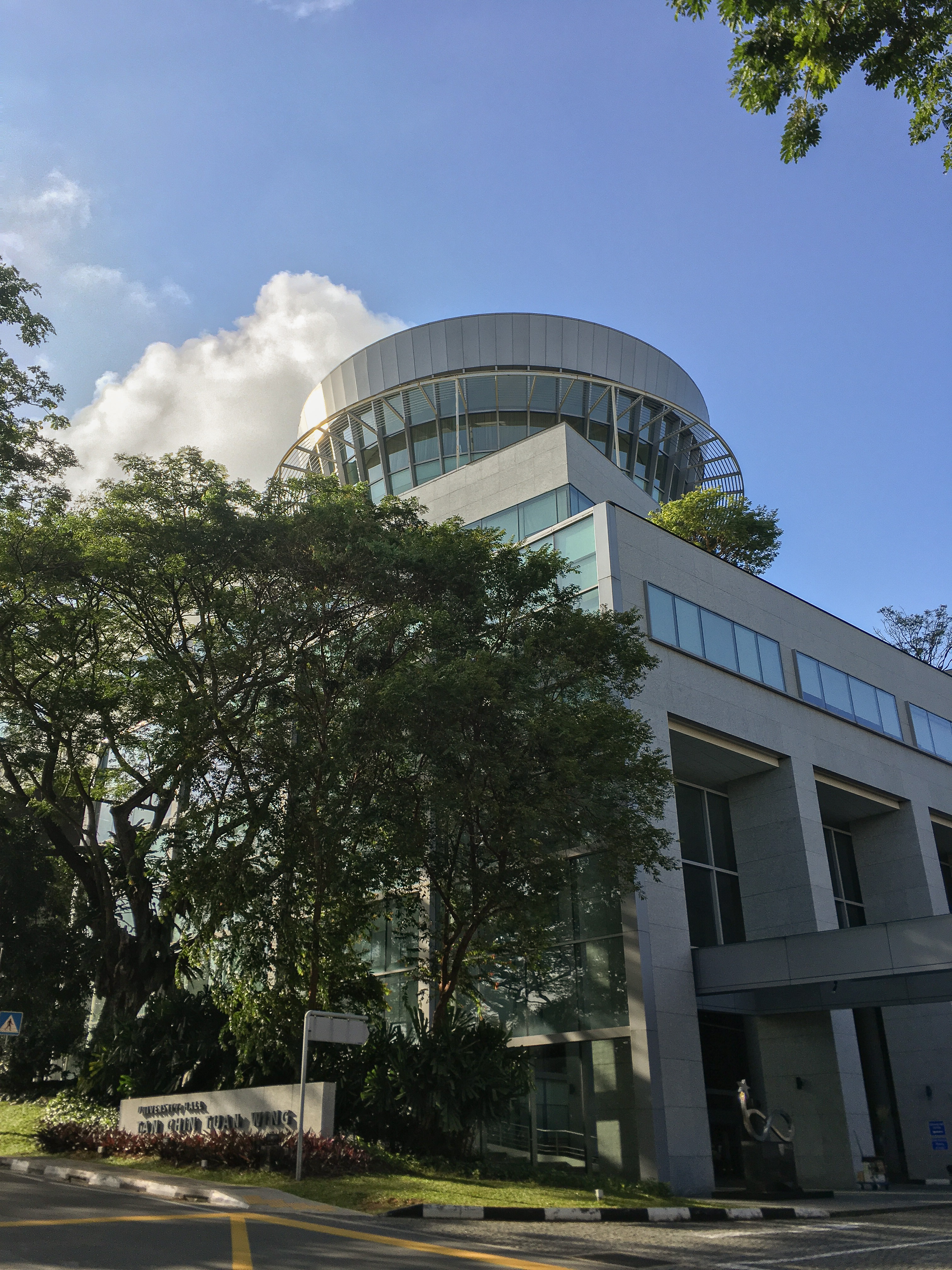 University Hall, an administration building at the National University of Singapore.